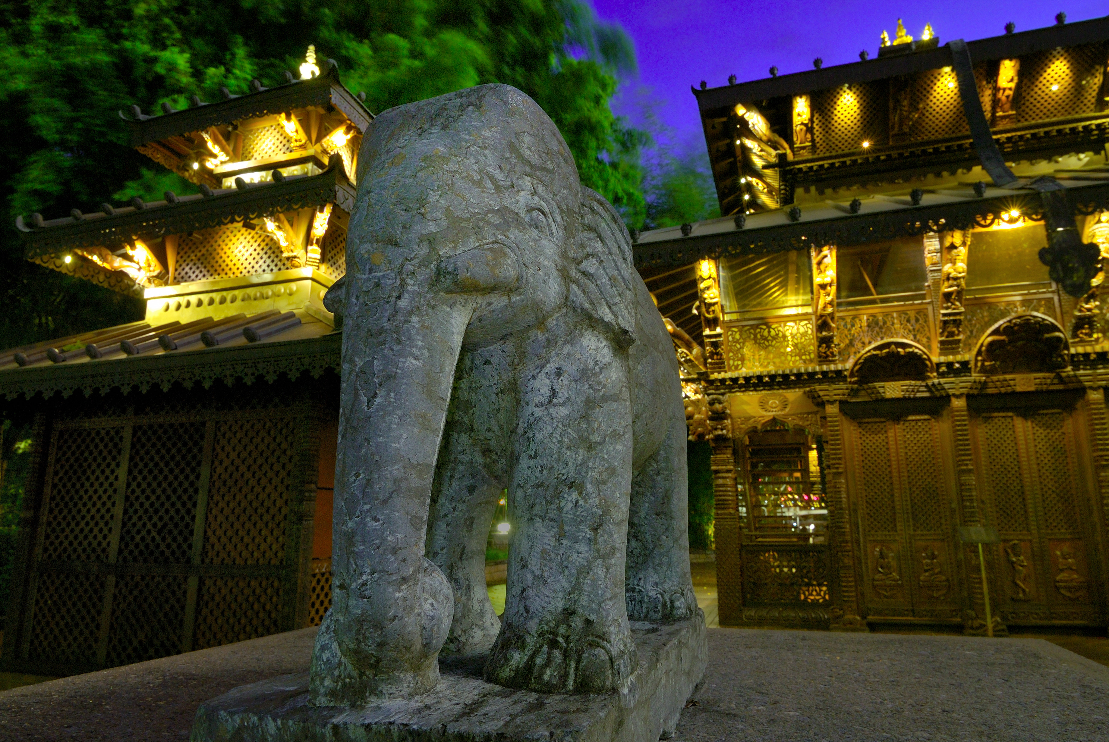 Nepalese Pagoda at South Bank Parklands in Brisbane.